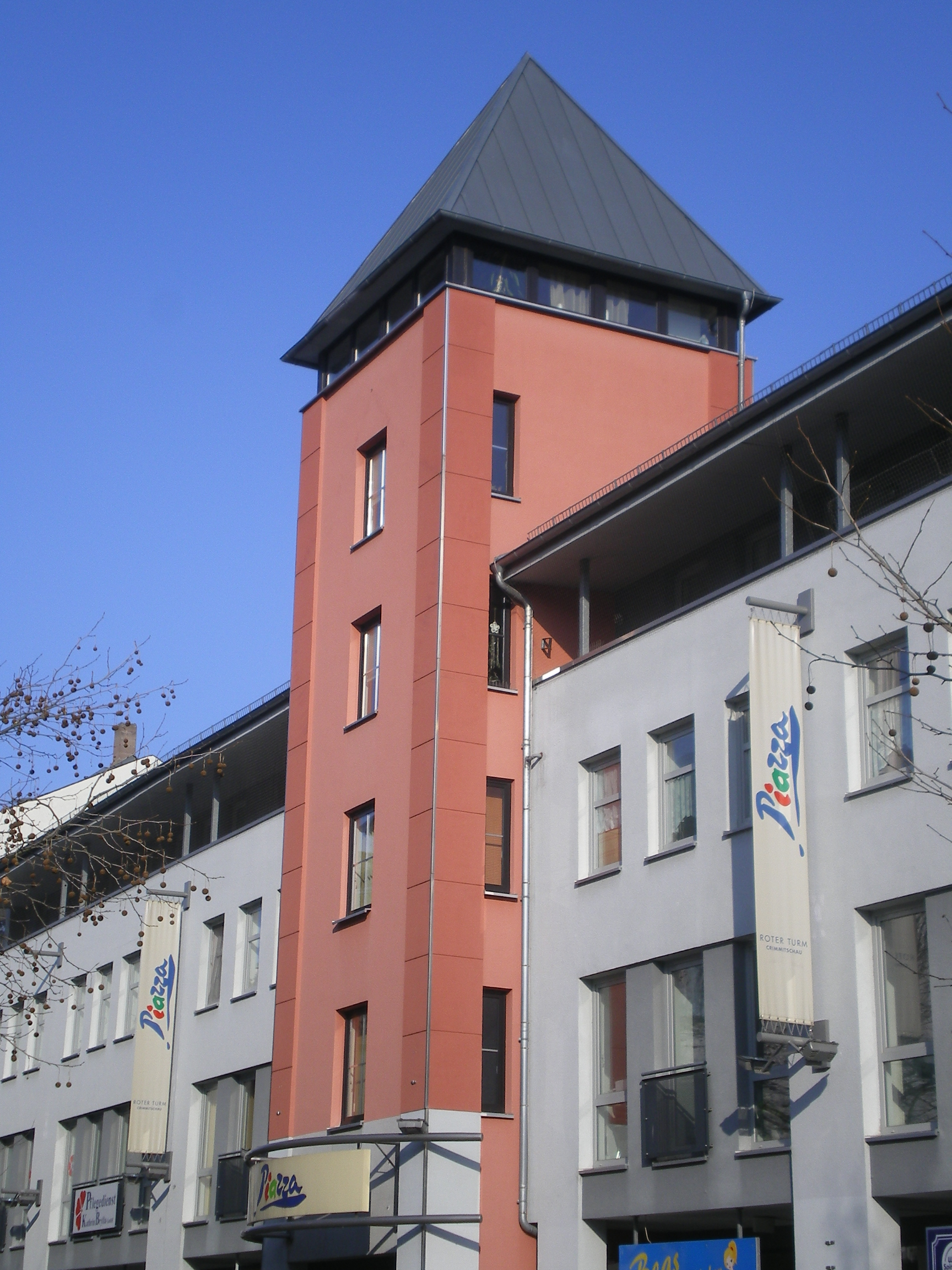 Red tower (town's landmark) in Crimmitschau near Zwickau/Saxony